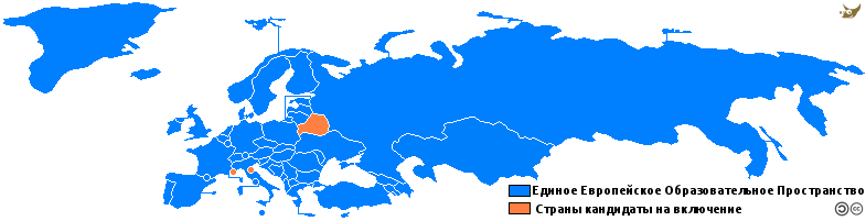 European Higher Education Area